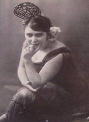 Teresita Zazá- cantante española